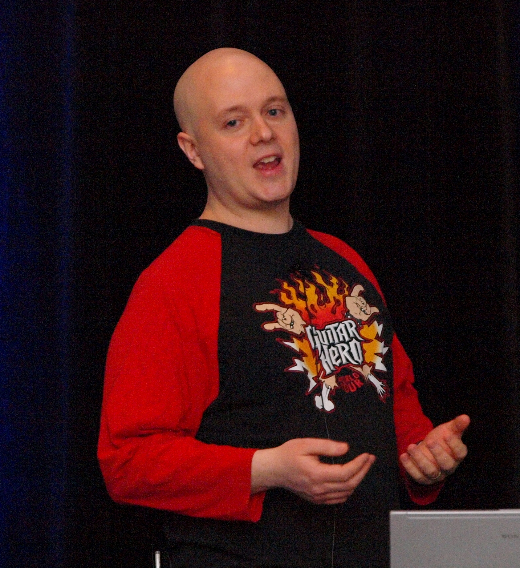 Richard Rouse III (Ubisoft Montreal) at the Game Developers Conference in 2010 (fifth day), speaking for "Five ways a video game can make you cry".